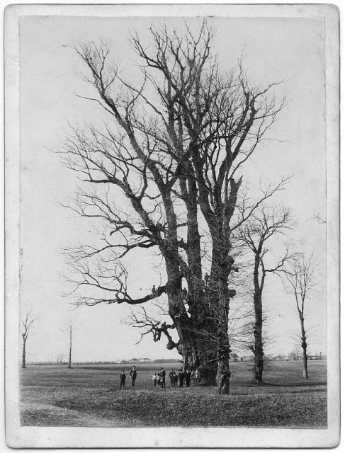 Cervenkuv poplar tree in Polabiny near Pardubice. The biggest tree in Bohemia around 1900 (circumference of 16 meters). Historical photo by František Karel Rosůlek